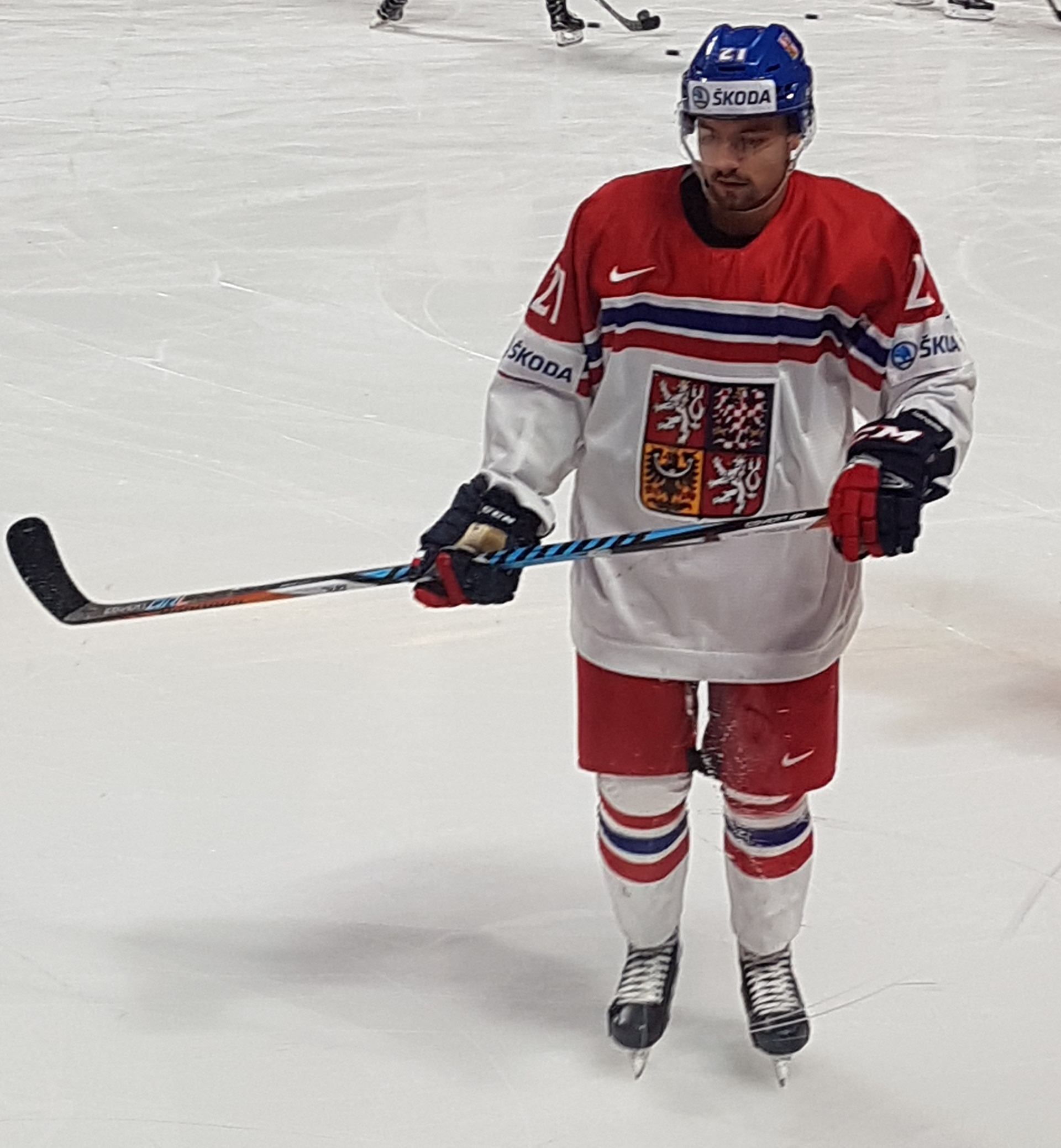 Radek Koblížek playing for the Czech Republic against Switzerland at the 2017 World Junior Ice Hockey Championships.